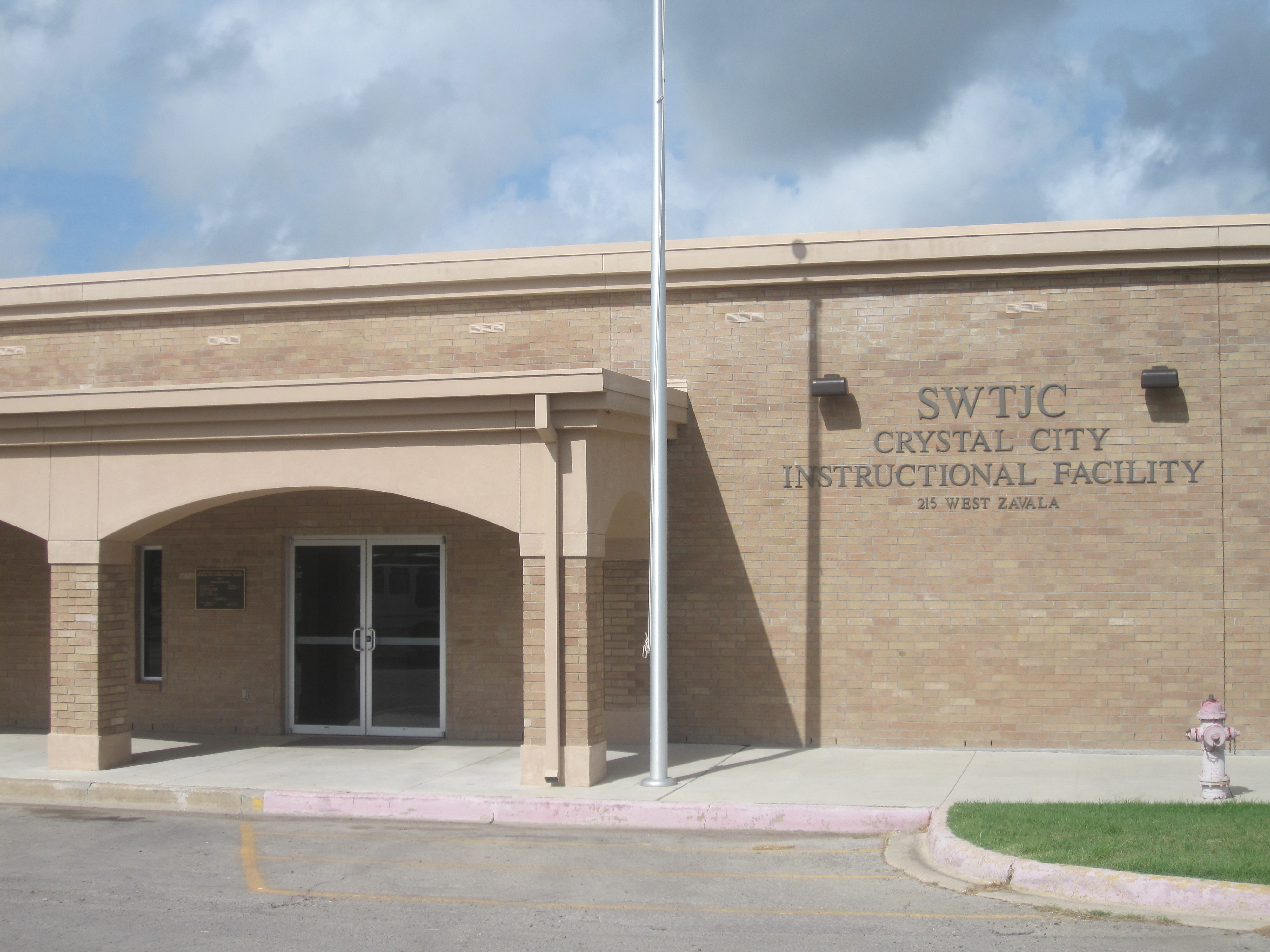 I took photo with Canon camera in Crystal City, TX.